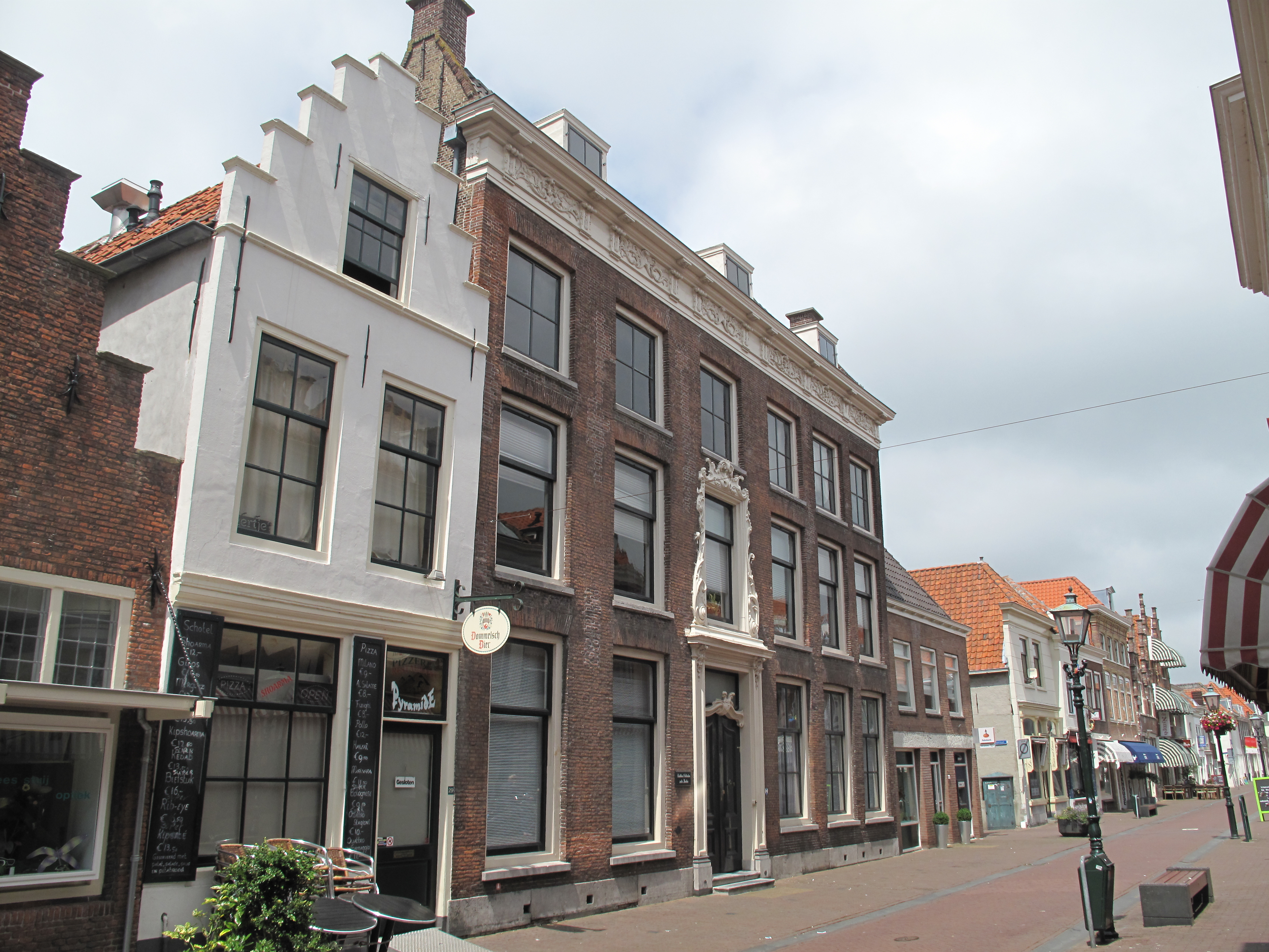 Brielle, magistrate's court in monumental building